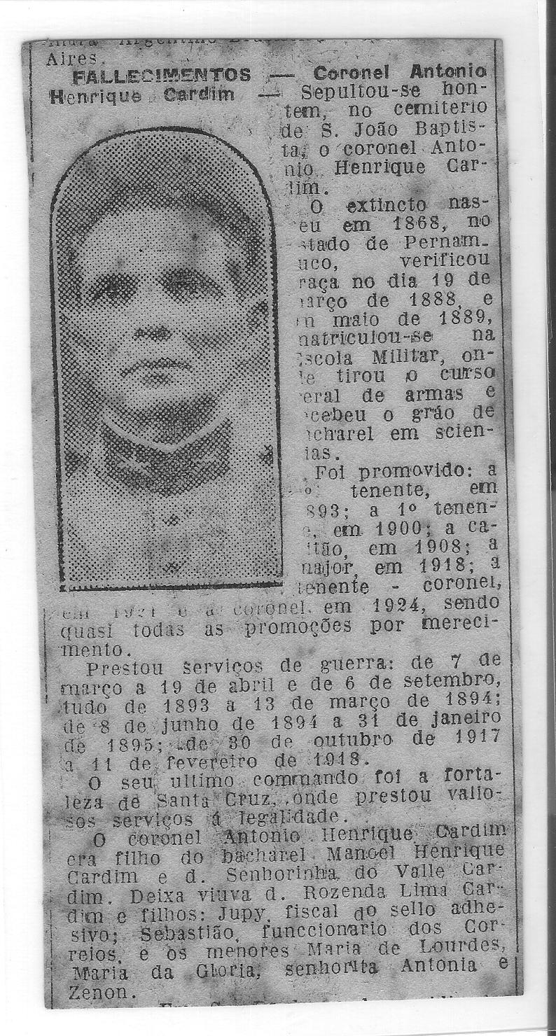 Exército Brasileiro - Nota de Falecimento do Marechal Antônio Henrique Cardim